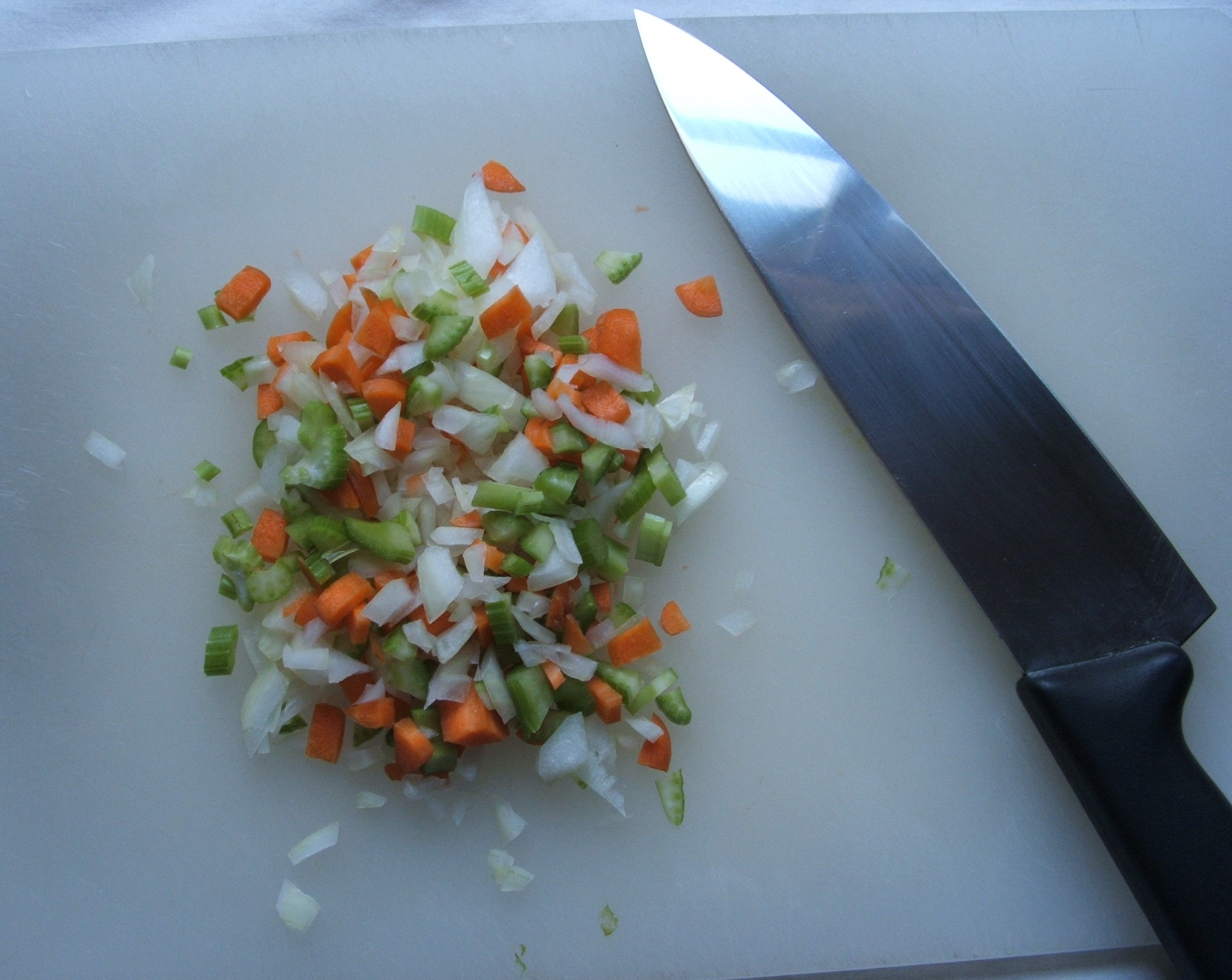 Mirepoix - a combination of onions, carrots and celery used in cuisine